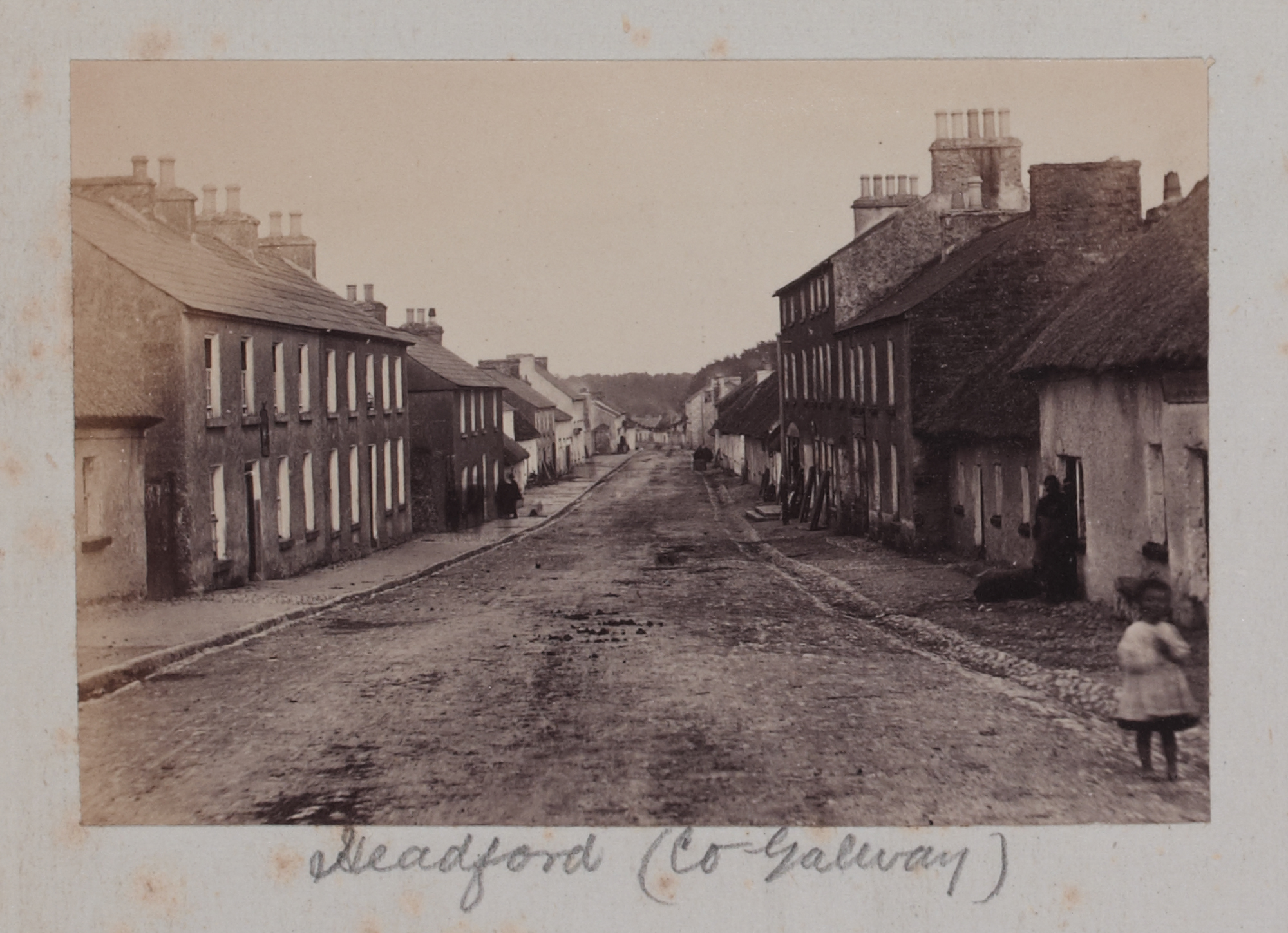 We are staying in the West of the Country with this lovely shop from the Wynne Album. The technical name for this type of photograph is an Albumen Print. Some Details of the Wynn Album, Album of captioned albumen prints, featuring the topography and people of counties Mayo and Galway. Includes views of the Roman Catholic and Anglican churches, railway station, court house, cemetery and prison in Castlebar, street scenes in Ballyvary, Newport, Charlestown, Westport, Tourmakeady, Swinford and Achill Island, Co. Mayo, and Headford, Tuam and Letterfrack, Co. Galway, abbeys at Cong, Ballintubber, Straide, Burrishole, Murrisk, Ross, Sligo and the round tower at Killala, the bridge at Pontoon, Lough Mask, Coursefield House, Brookhill House, Moorehall, Hollymount House, Westport House, Tourmakeady House, Rock House, Turlough House and Tower, Clifden Castle, Kylemore Castle and gardens. Also included are a photo of Fr. Lavelle, eviction scenes and men beside an effegy of 'Judge Keogh', both in Castlebar. Photographers: Thomas J. Wynne 1838 - 1893 Collection: Wynne Album Date: Circa 1880’s NLI Ref: WYN58 You can also view this image, and many thousands of others, on the NLI’s catalogue at